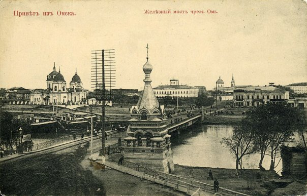 Iron bridge upon rhe Om river